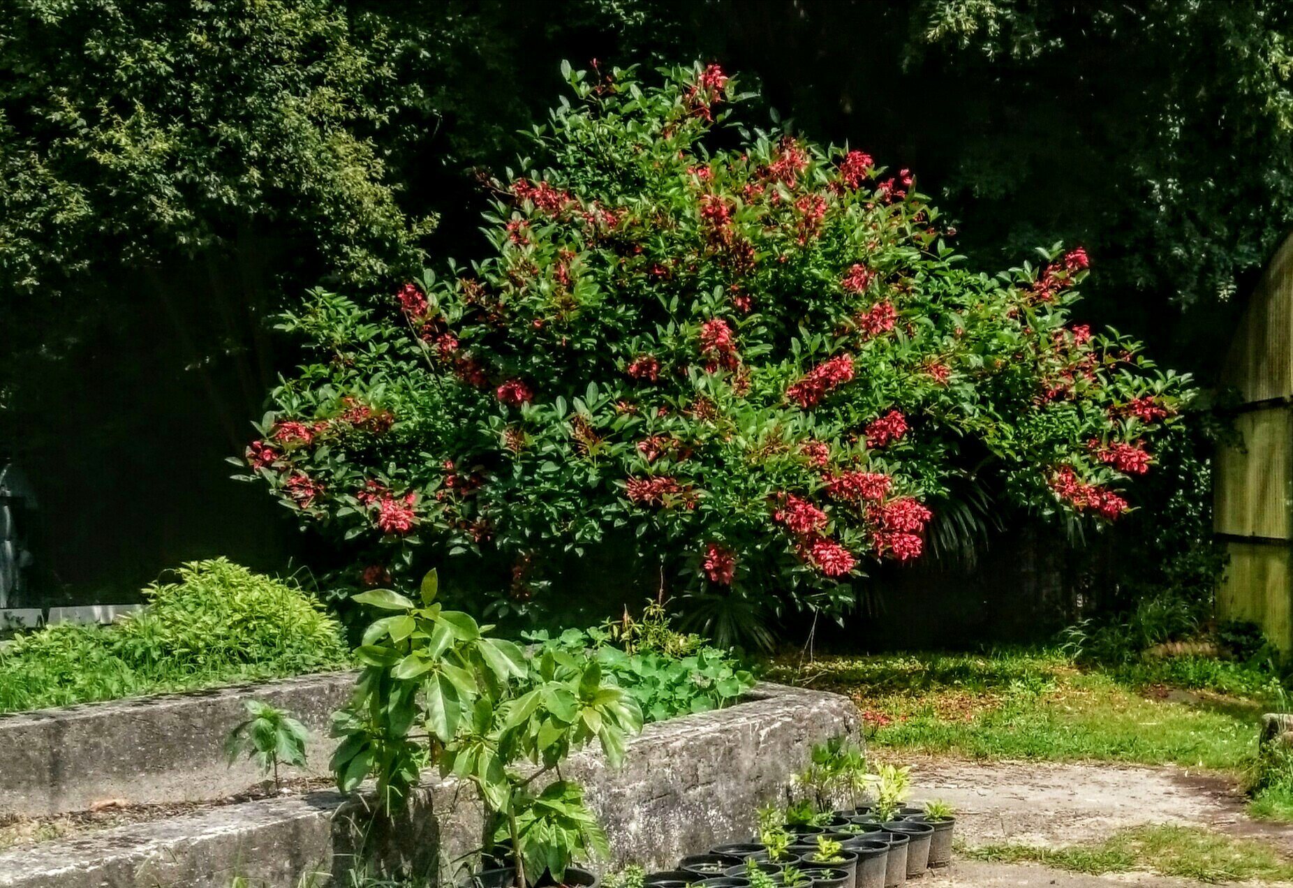 Arbol de ceibo (Erythrina crista-galli) en el parque de los Viveros de Ulía.